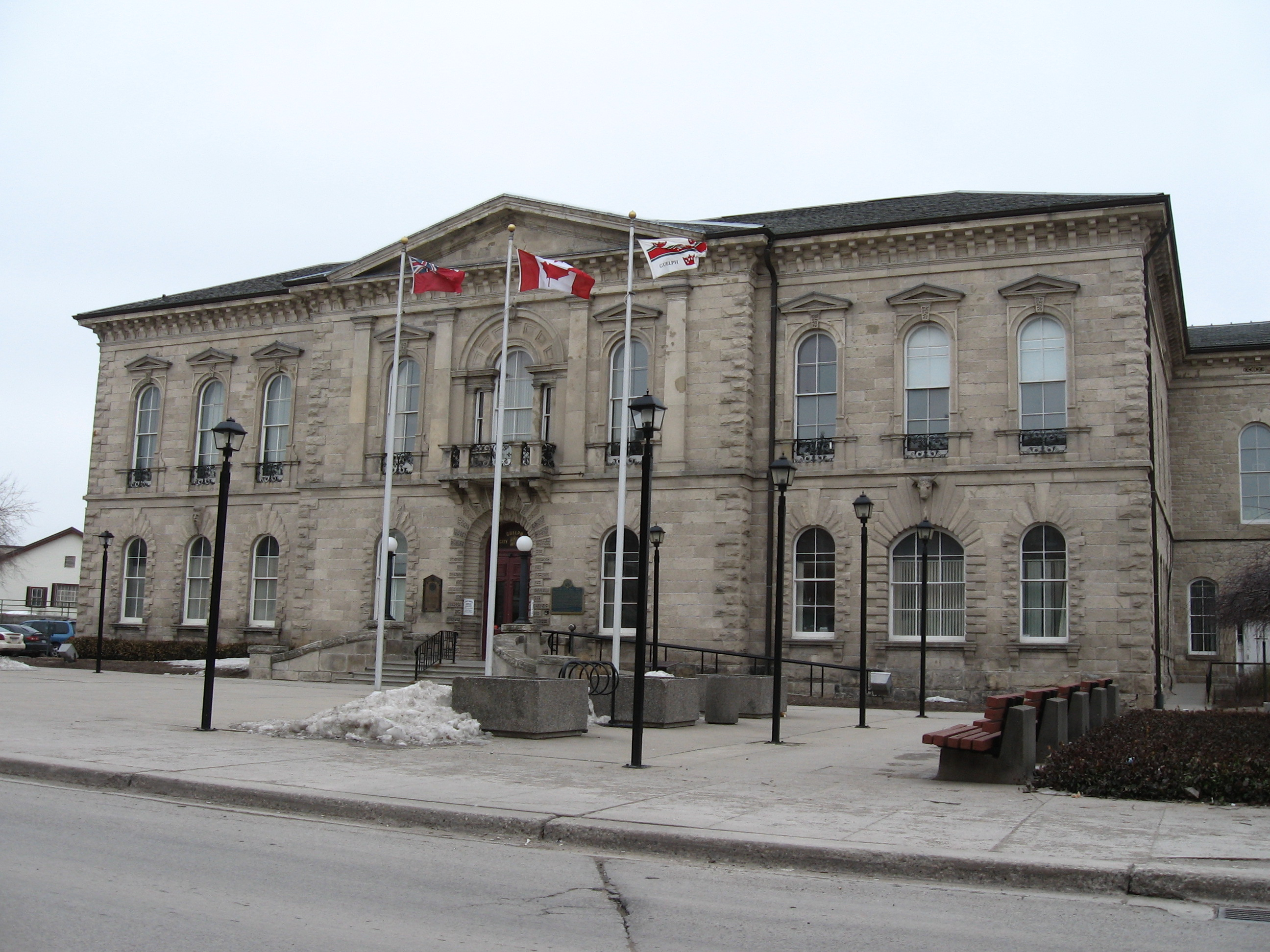 A picture of Guelph City Hall, Guelph, Ontario, Canada. A picture I took myself while on vacation.